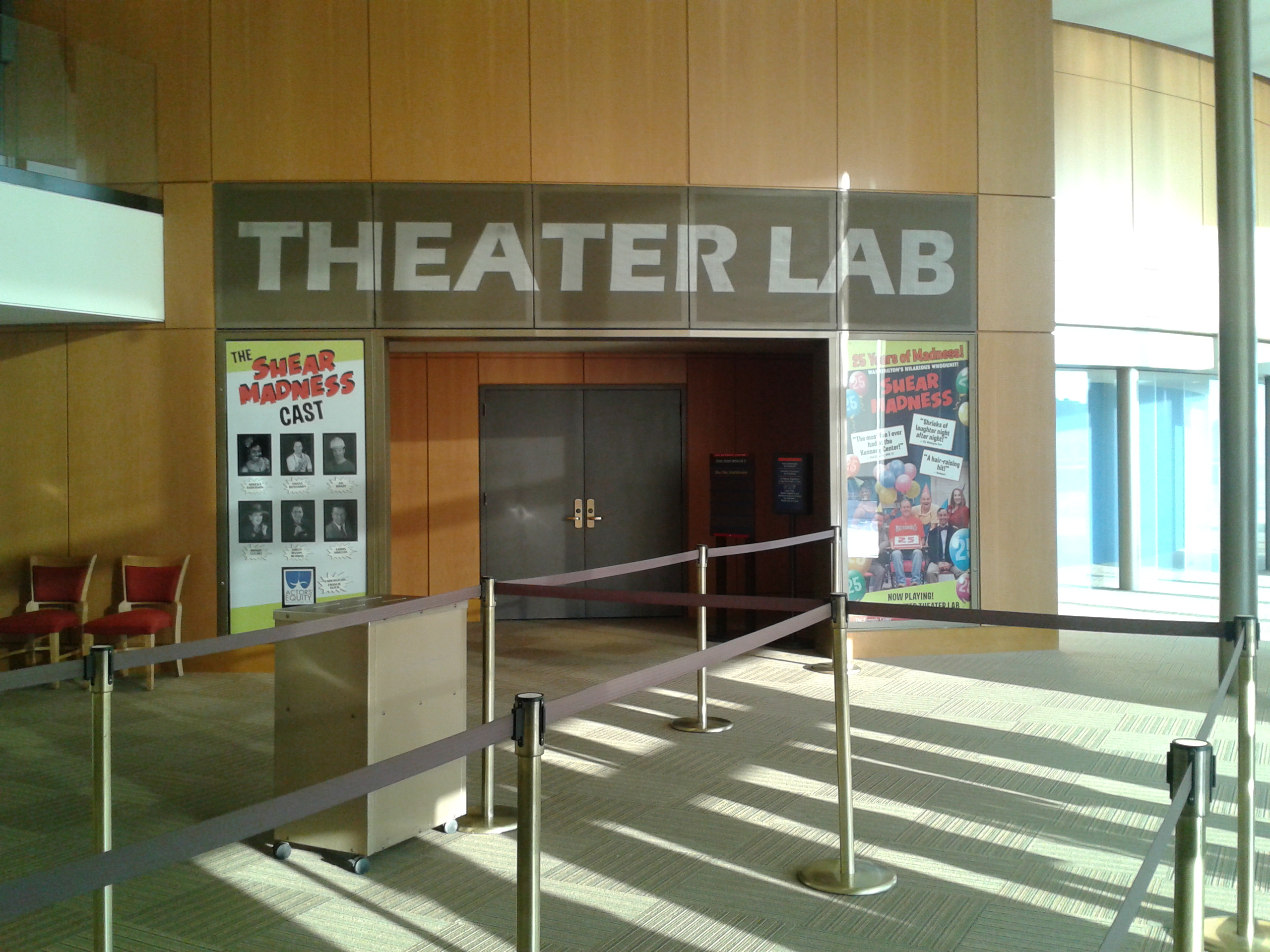 Interior of the Kennedy Center